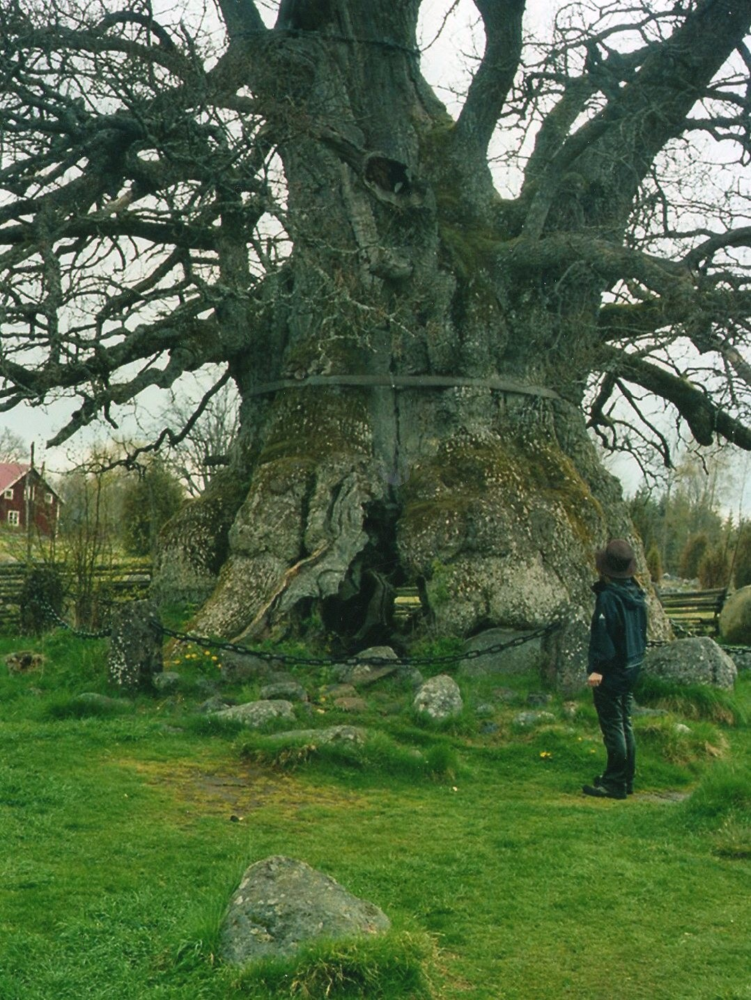 Oak in Sweden, Rumskullaeken (Kvilleken)